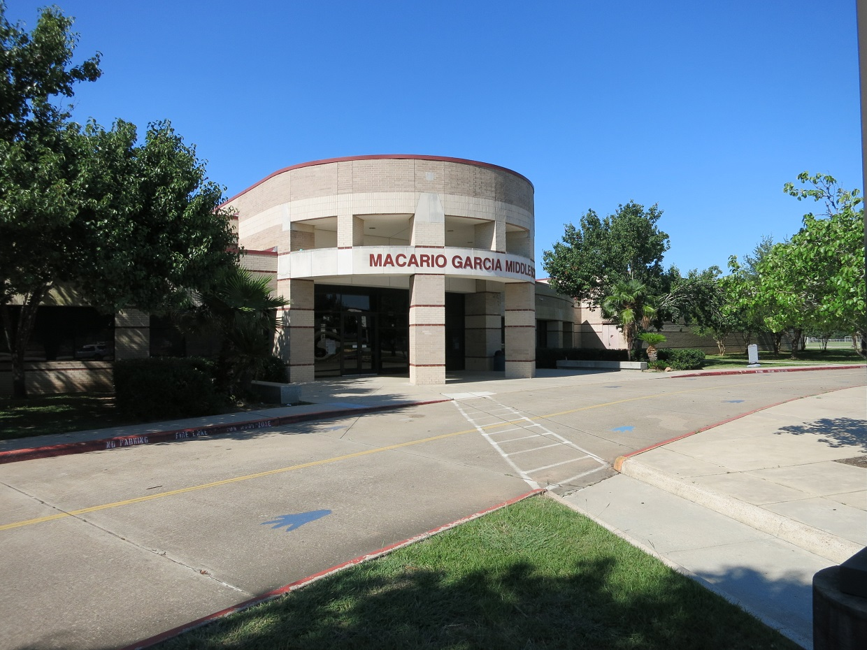 Photo shows Macario Garcia Middle School at 18550 Old Richmond Road, 77498, near Sugar Land, TX. It is part of the Fort Bend Independent School District. View is toward the northeast.